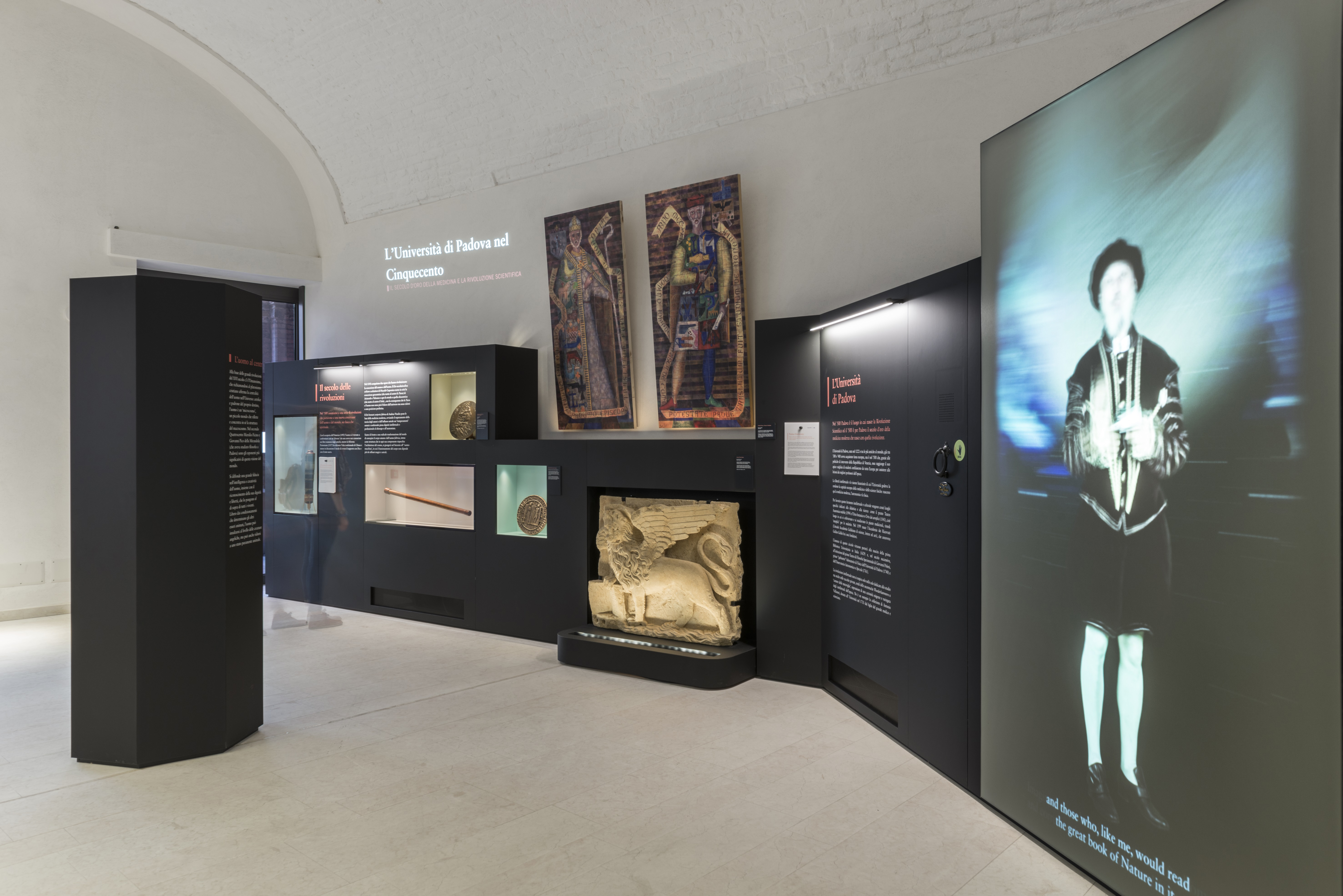 Exhibition in the Museo di Storia della Medicina (MUSME), Padua, Italy.